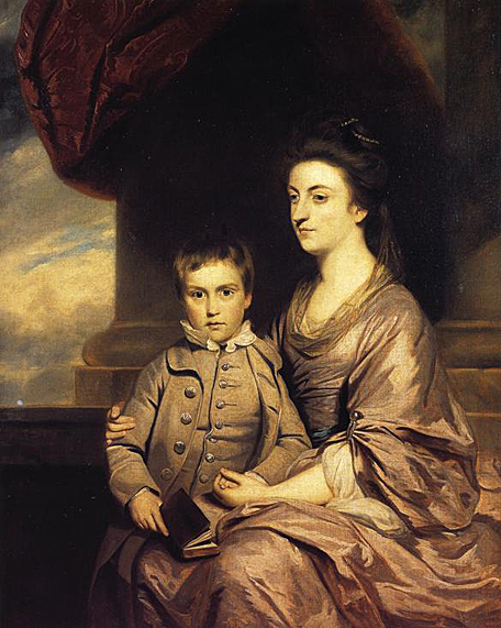 Elizabeth Herbert, Countess of Pembroke (1737-1831) and her son